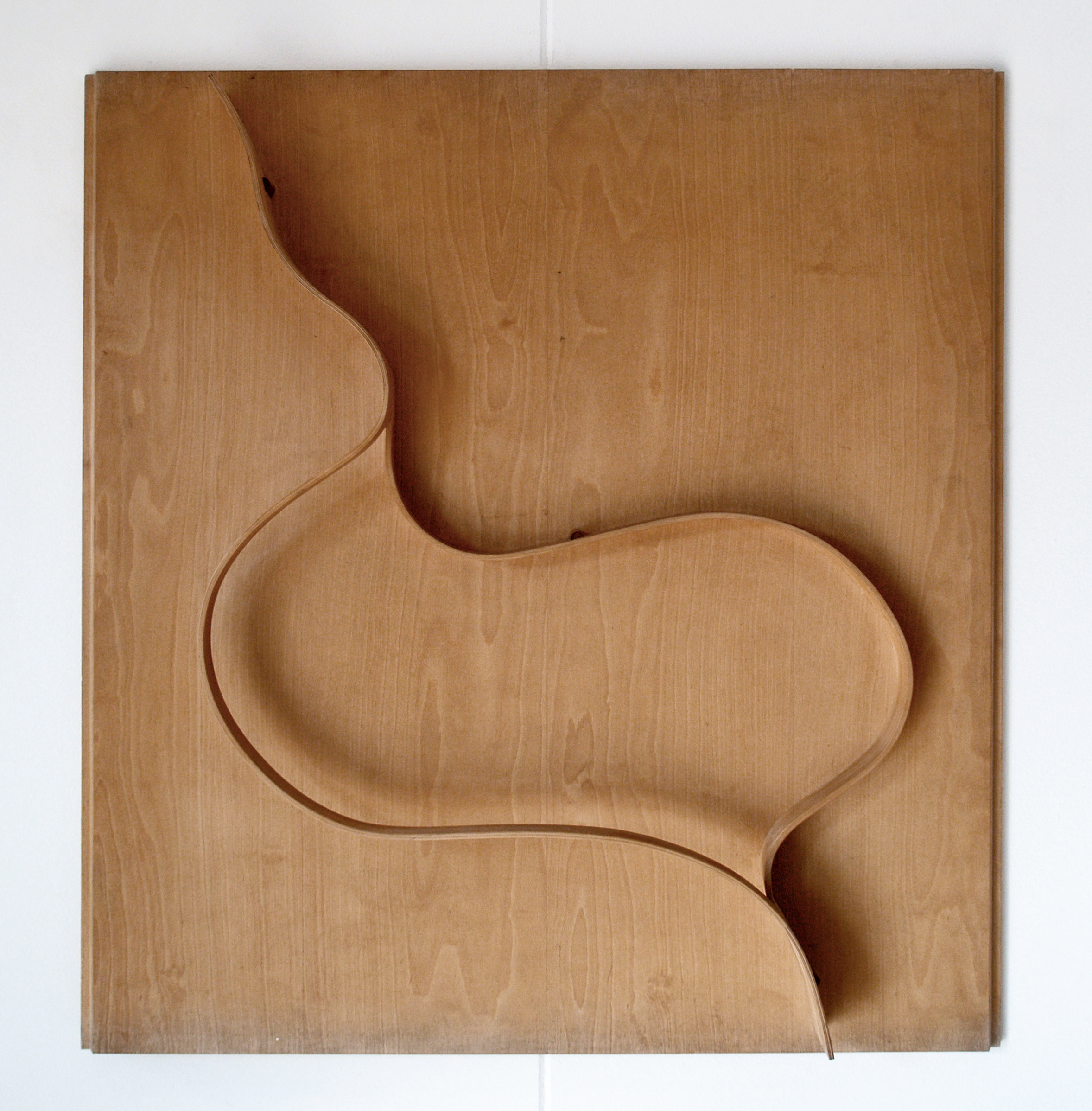 Alvar Aalto's wood bending experiments c. 1934 Paustian House, Copenhagen